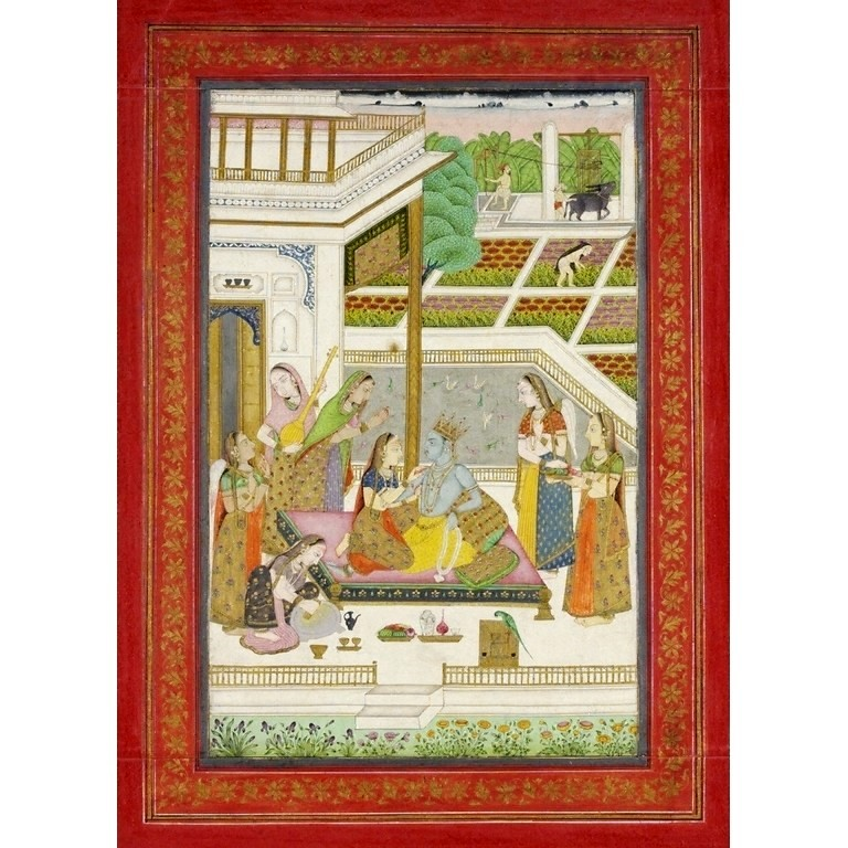 Radha-Krishna, a depiction of Bhairava Raga, Ragamala. ca 1770 . Gouache on paper.